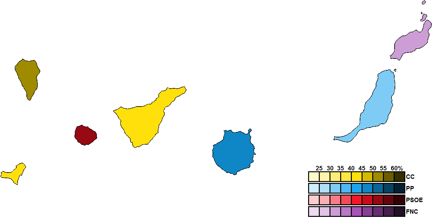 District results for the 2003 Canarian regional election.